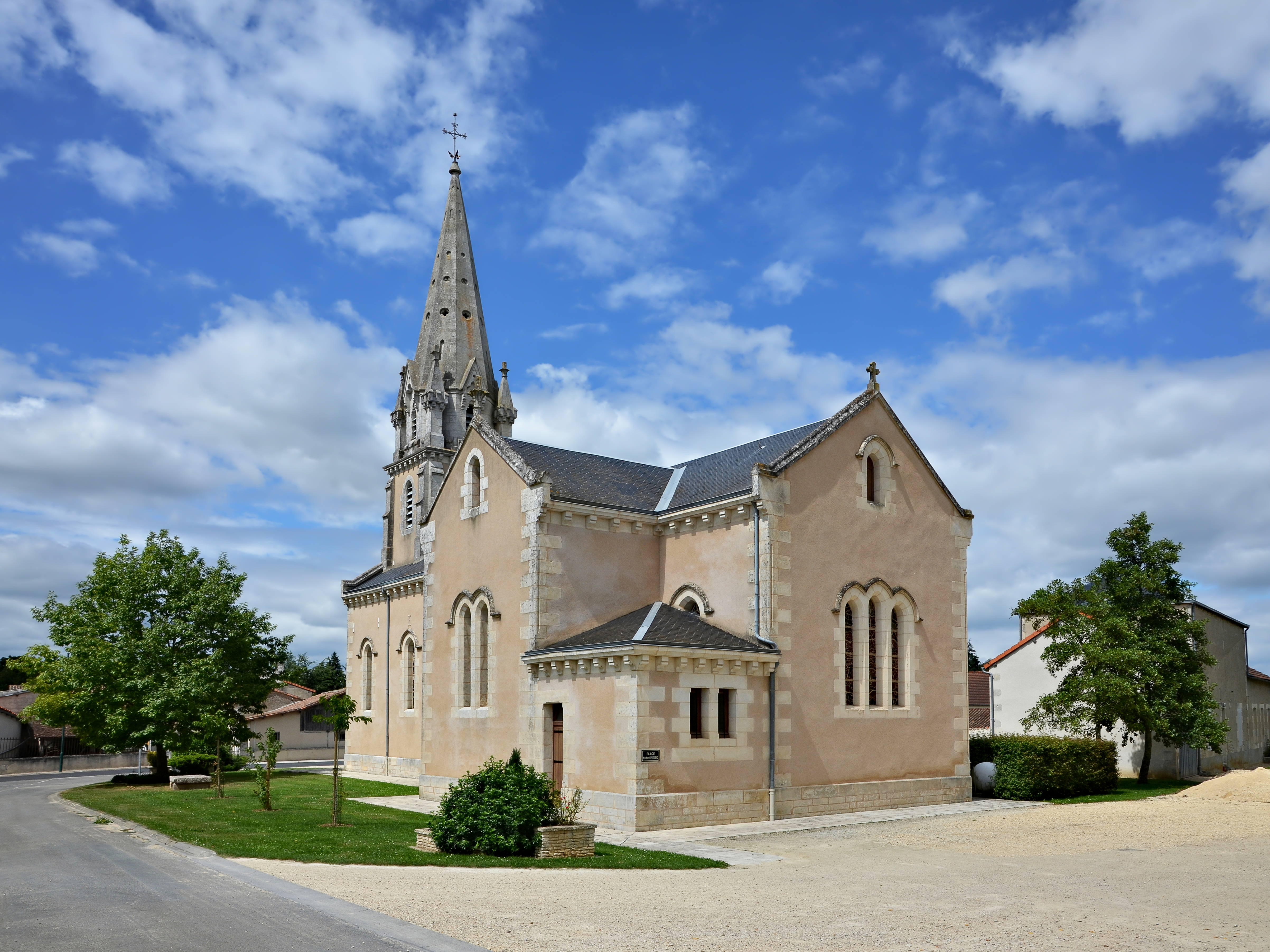 Church built at the end of the XIXth century, Saint-Gaudent, Vienne, France.